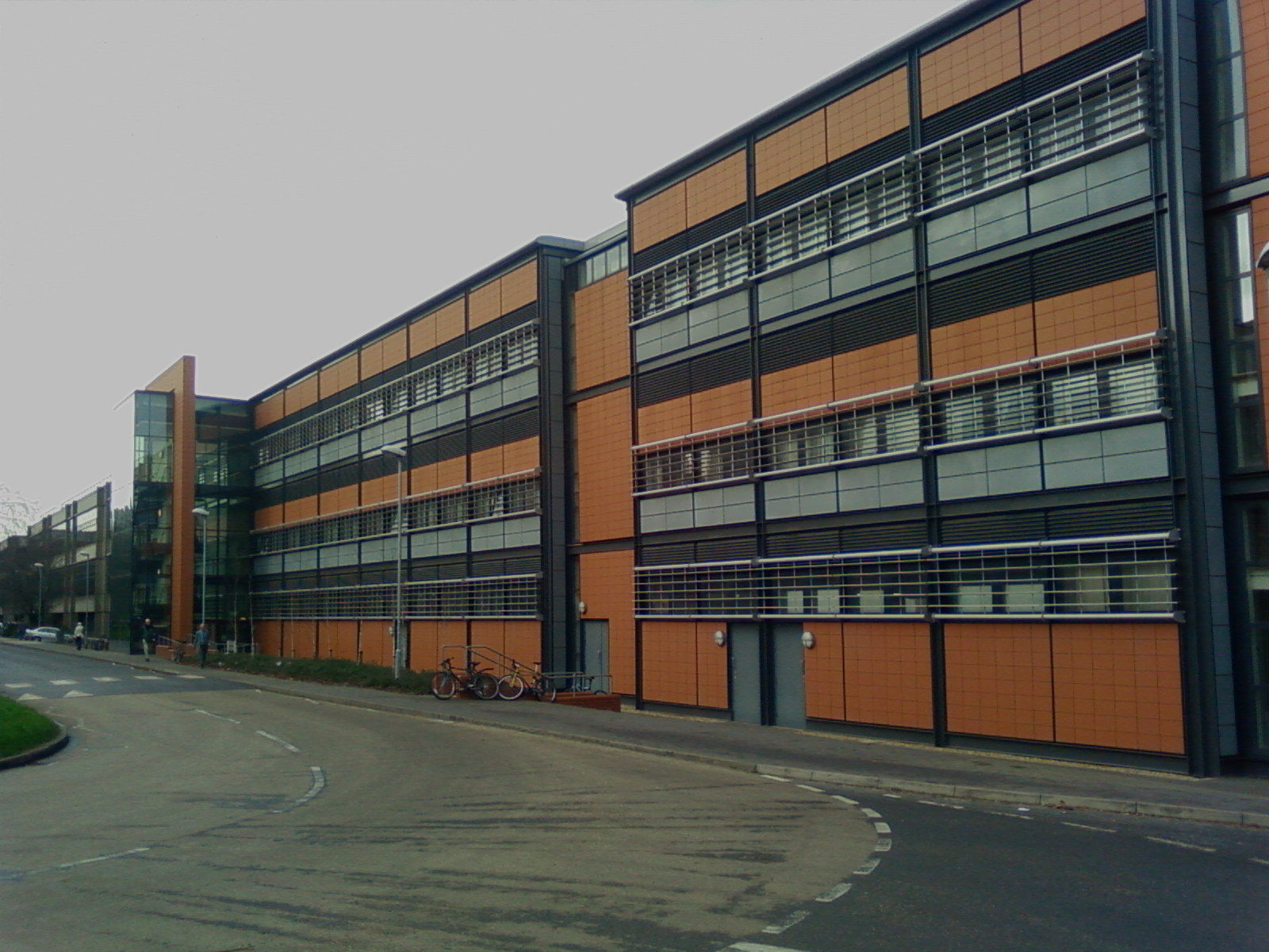 Photo: Wolfson School of Mechanical Engg Camera: Samsung Pixel: 1600x1200 Date: 29th Jan 2007 Photographer: Myself!